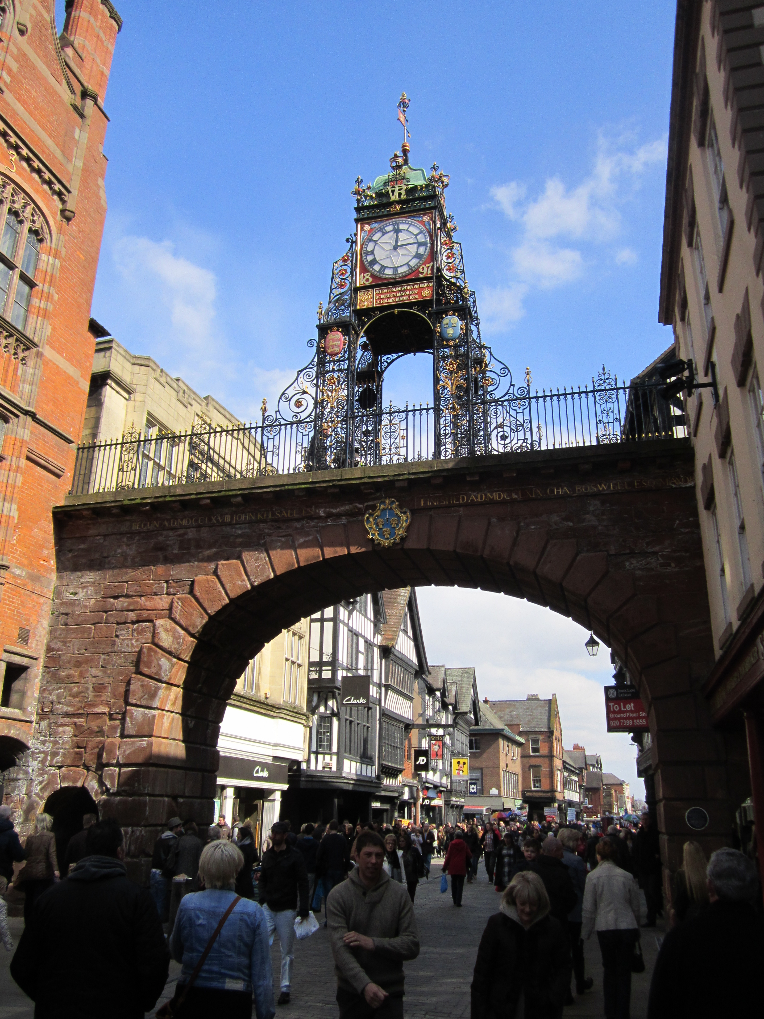 Eastgate, Chester, England.